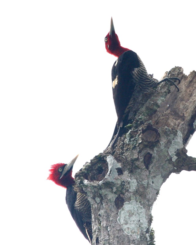 Robust Woodpecker (Campephilus robustus) at Iguasu Falls, Argentina on 4 April 2006. Distribution